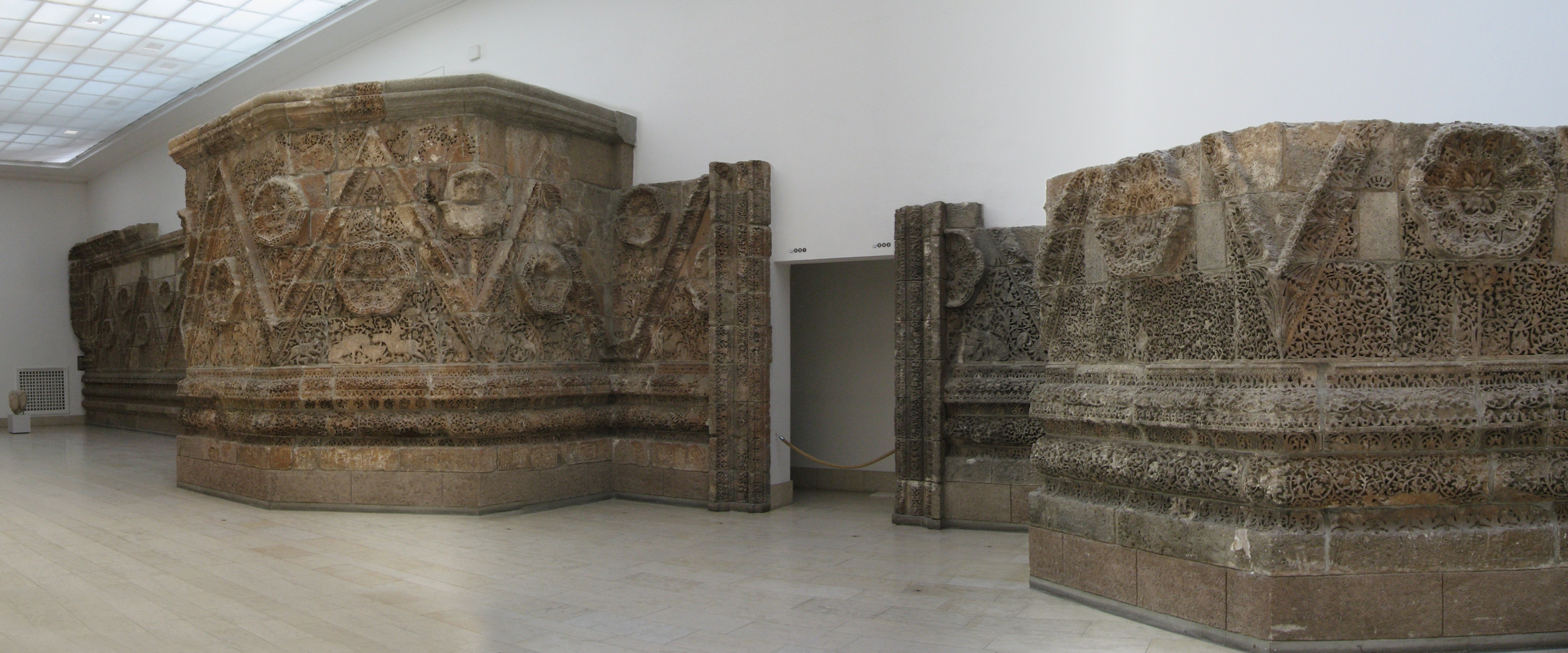 Facade of the palace of Mashatta, in Jordan. Located in the Pergamonmuseum in Berlin